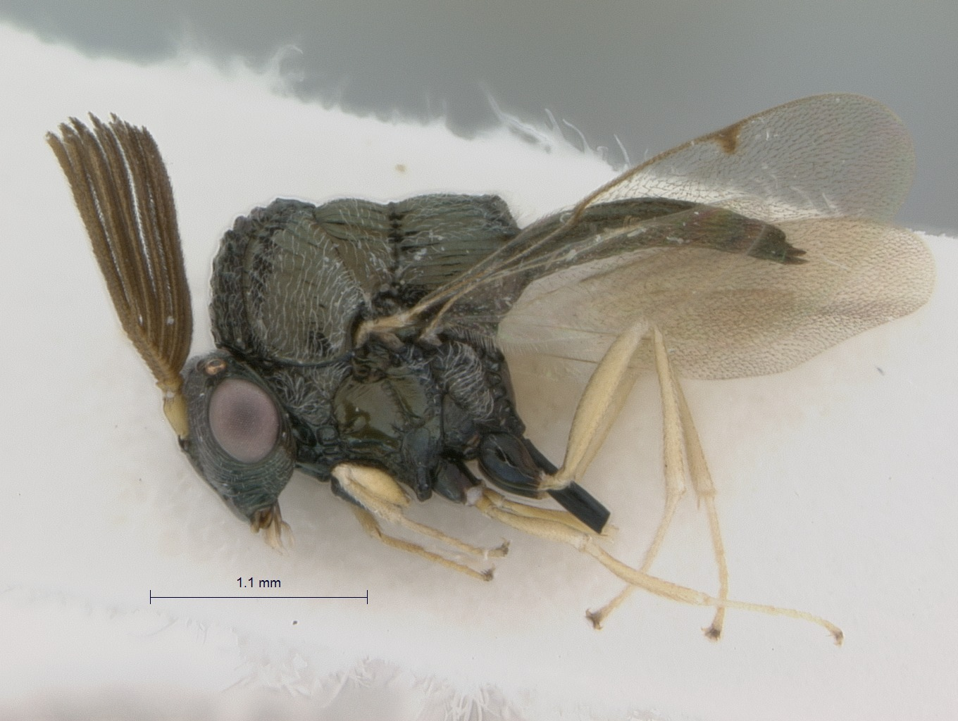 Kapala sulcifacies, specimen from Guatemala: Retalhuleu: Retalhuleu, 250m 14°33'58"N 91°43'42"W 13 Jul 2001 D. Yanega